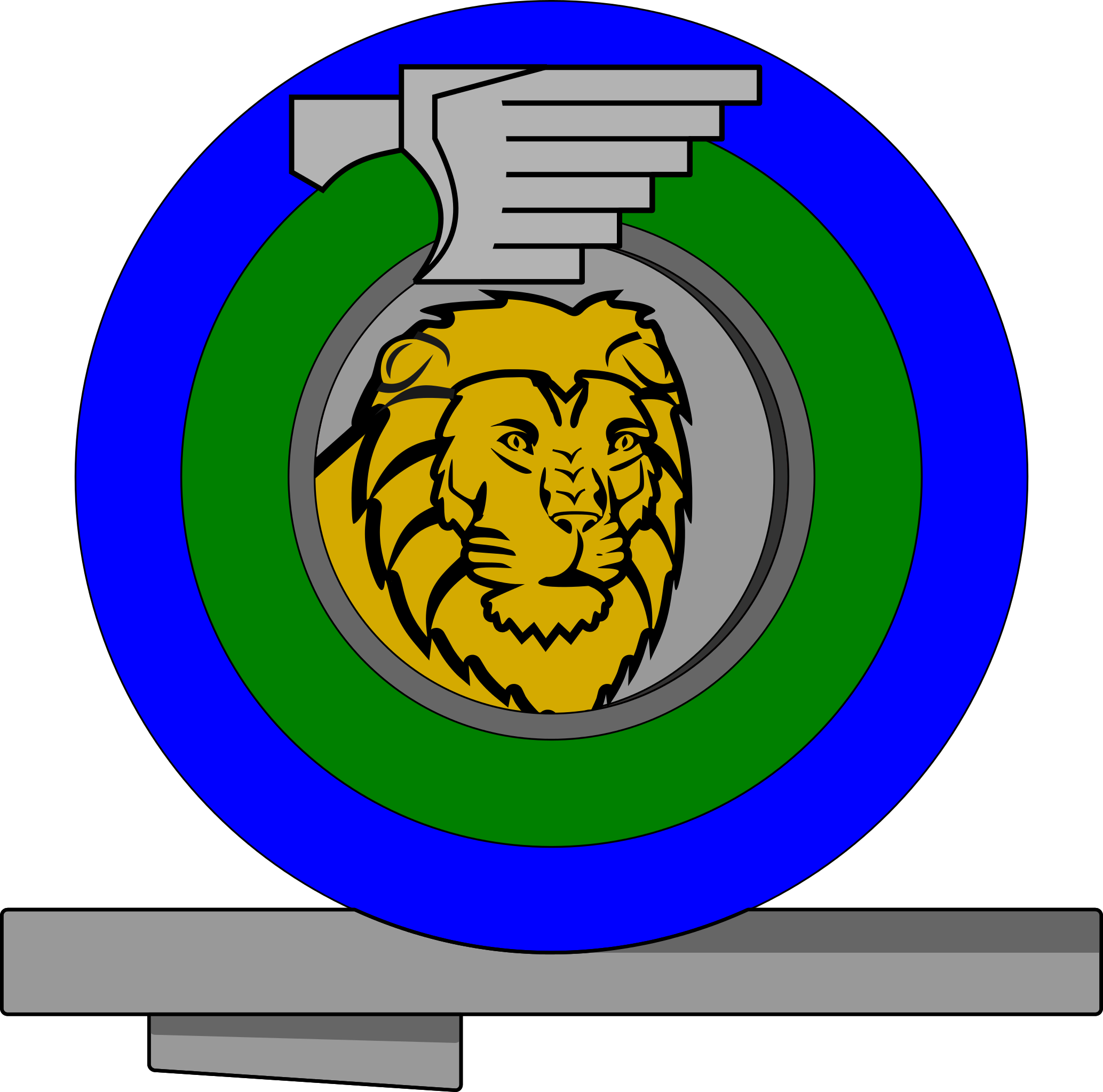 Coat of Arms of the 158th Infantry Regiment "Liguria", Royal Italian Army, 1939